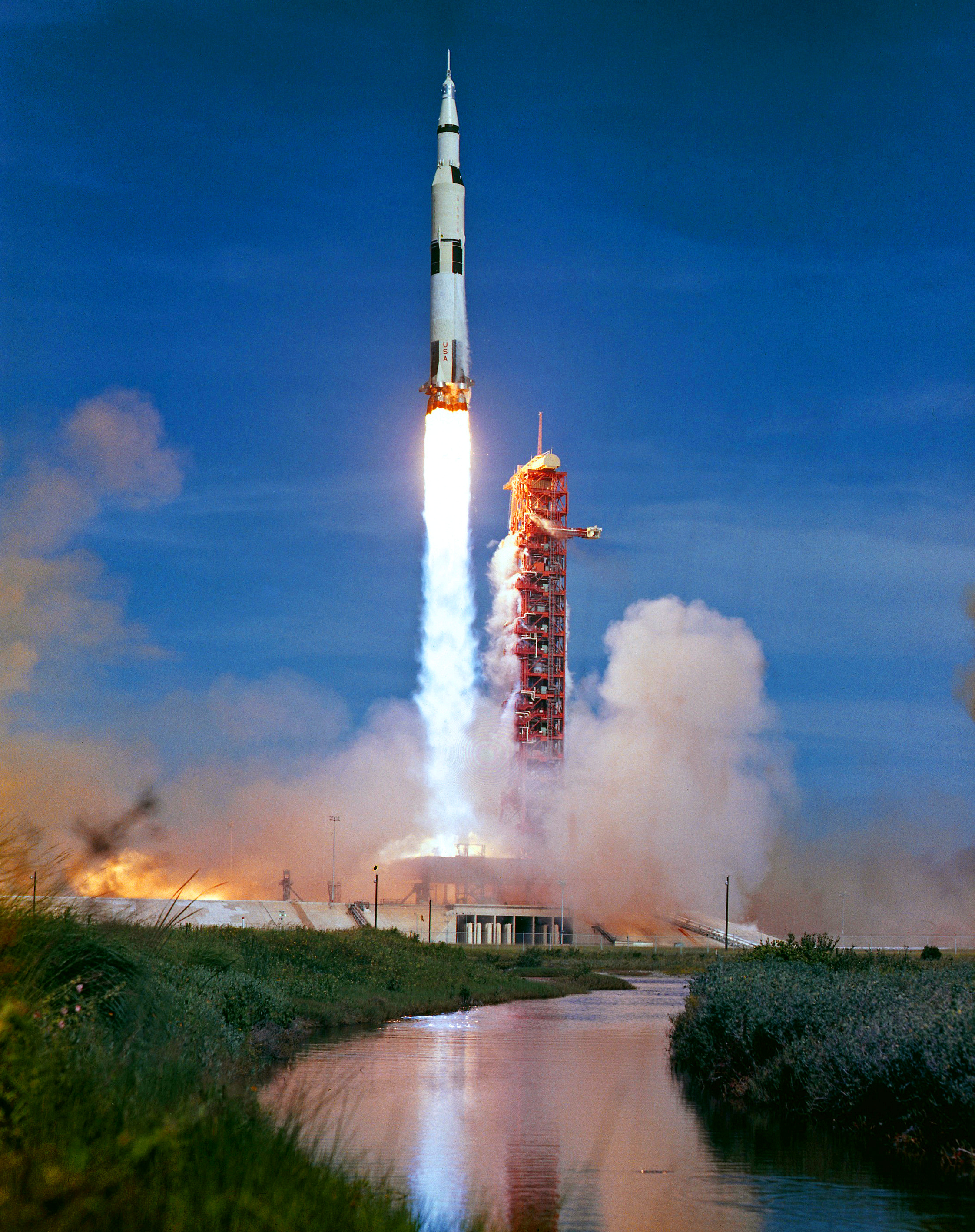 Launch of Apollo 15. The rocket is about to clear the tower.